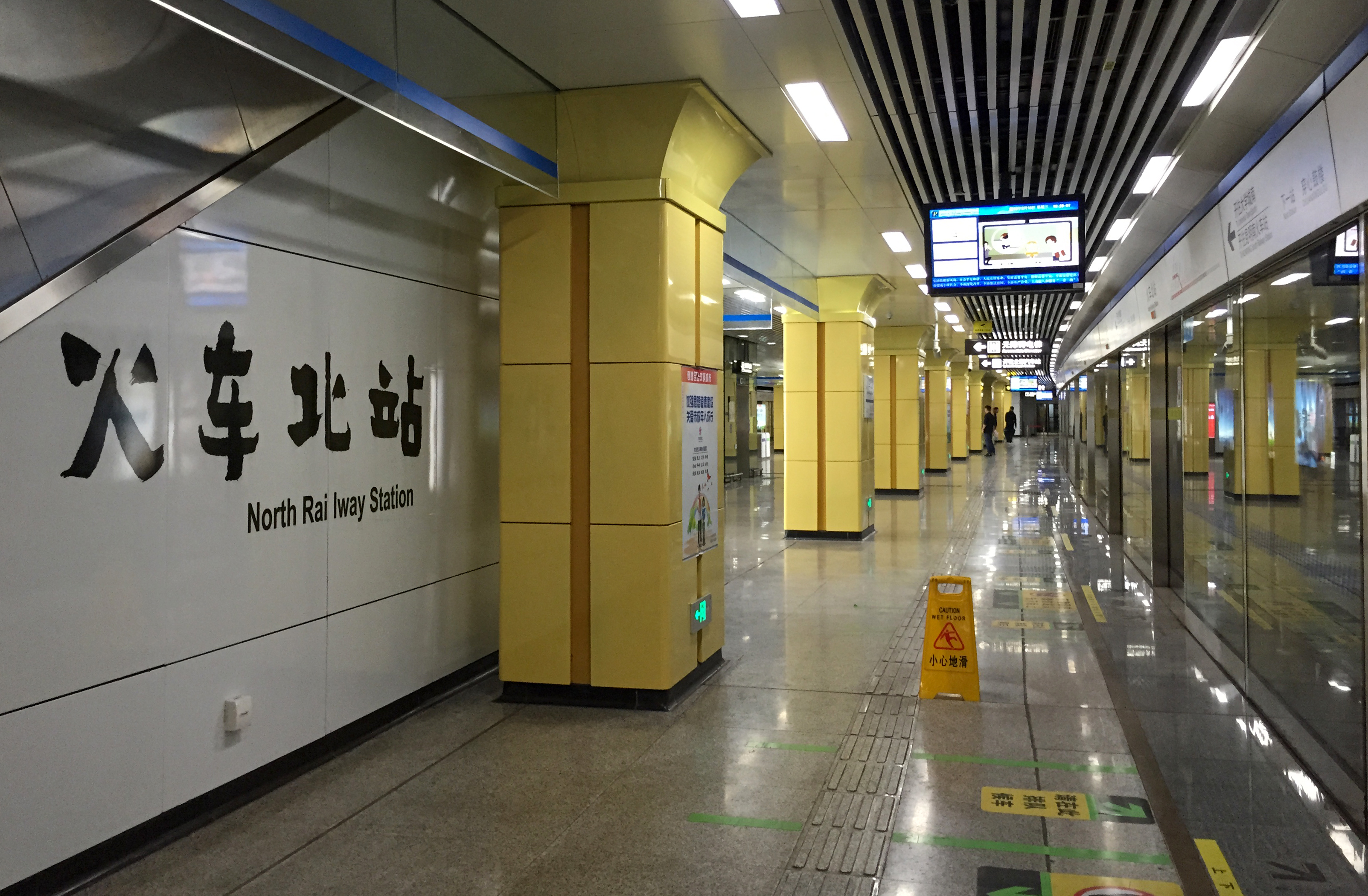 Pretty cool - curve platform!